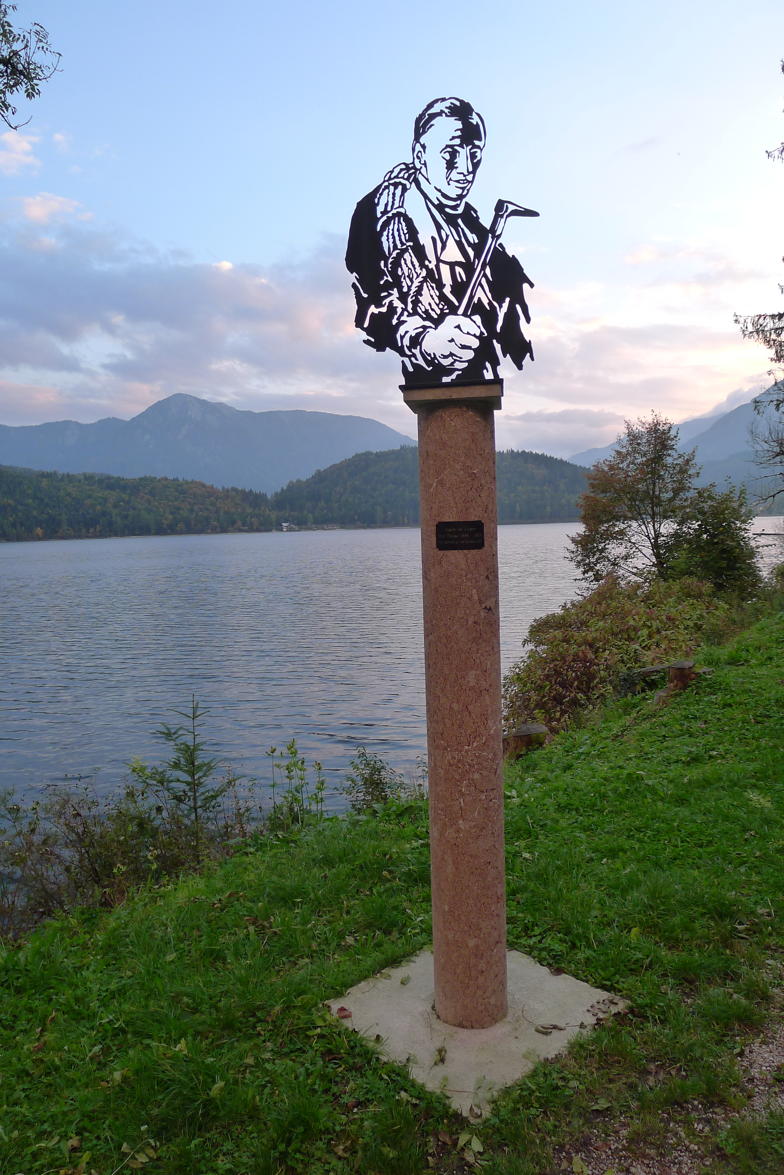 Paul Preuss memorial Altaussee, Zinken mountain in background left